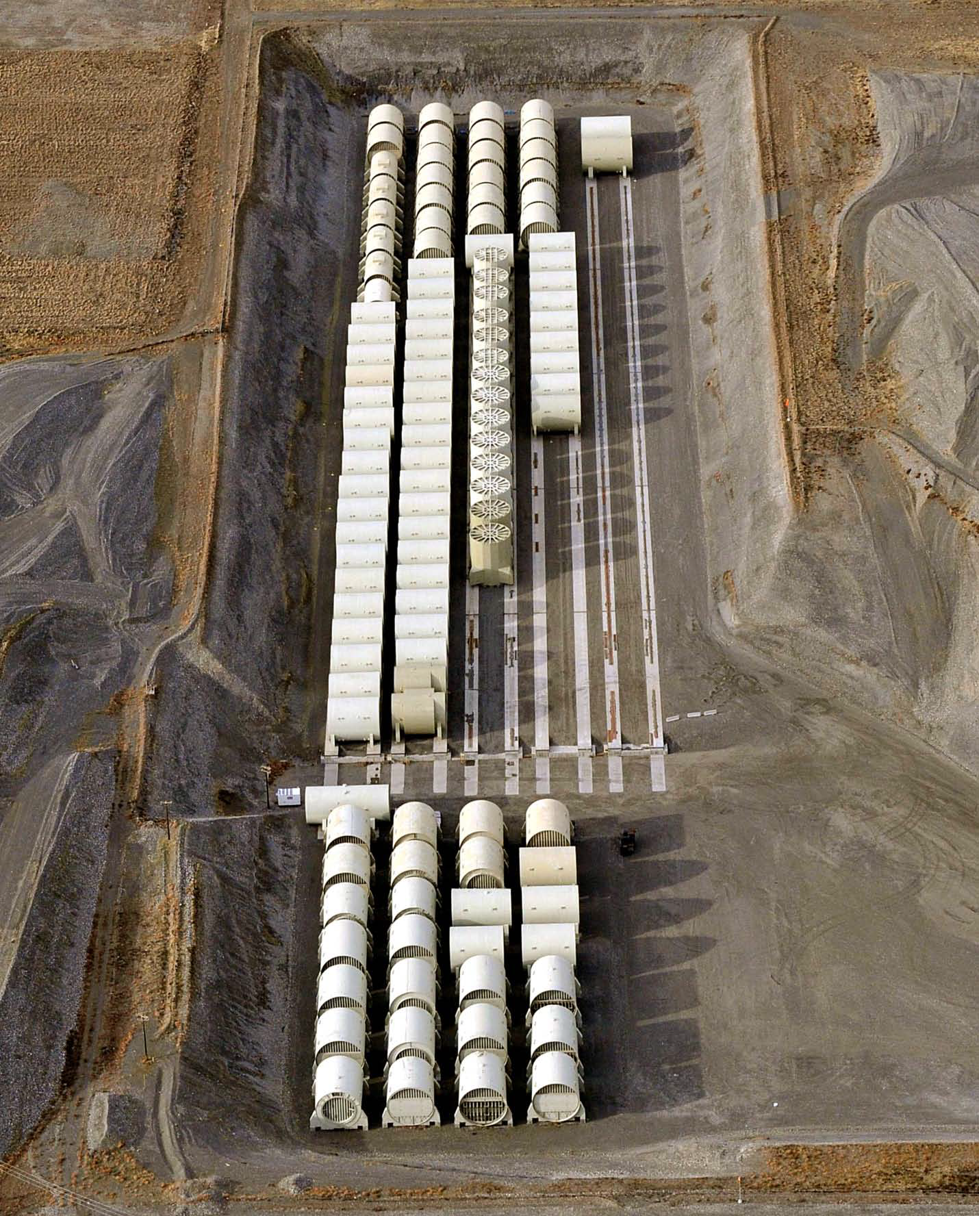 Naval Reactor Disposal Site, Trench 94 200 Area East Hanford Site, WA Reactor Compartment Packages in Pre-LOS ANGELES Class, LOS-ANGELES Class, and Cruiser, November 2009